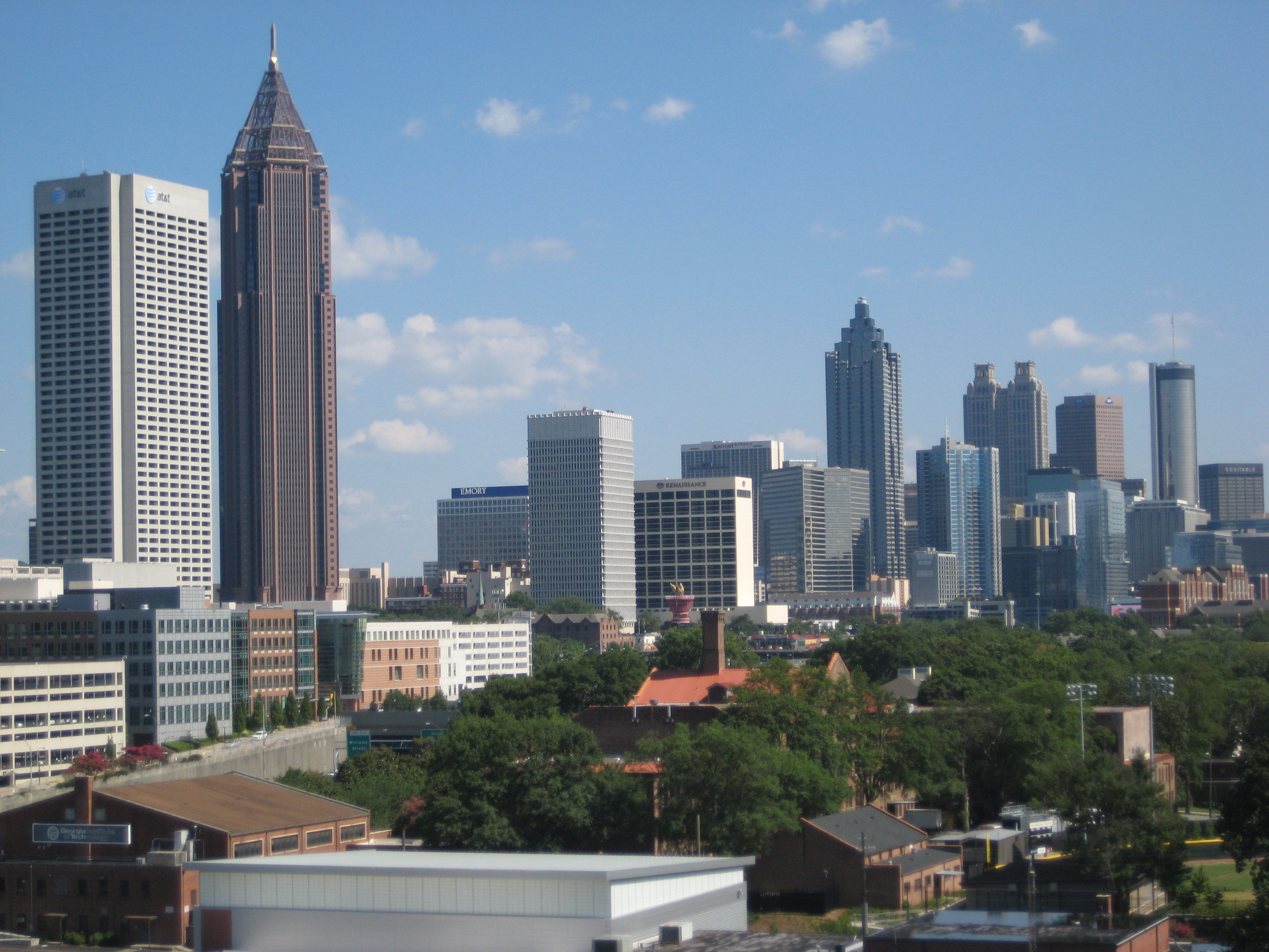 BANK OF AMERICA PLAZA ON THE LEFT AND DOWNTOWN ON THE RIGHT